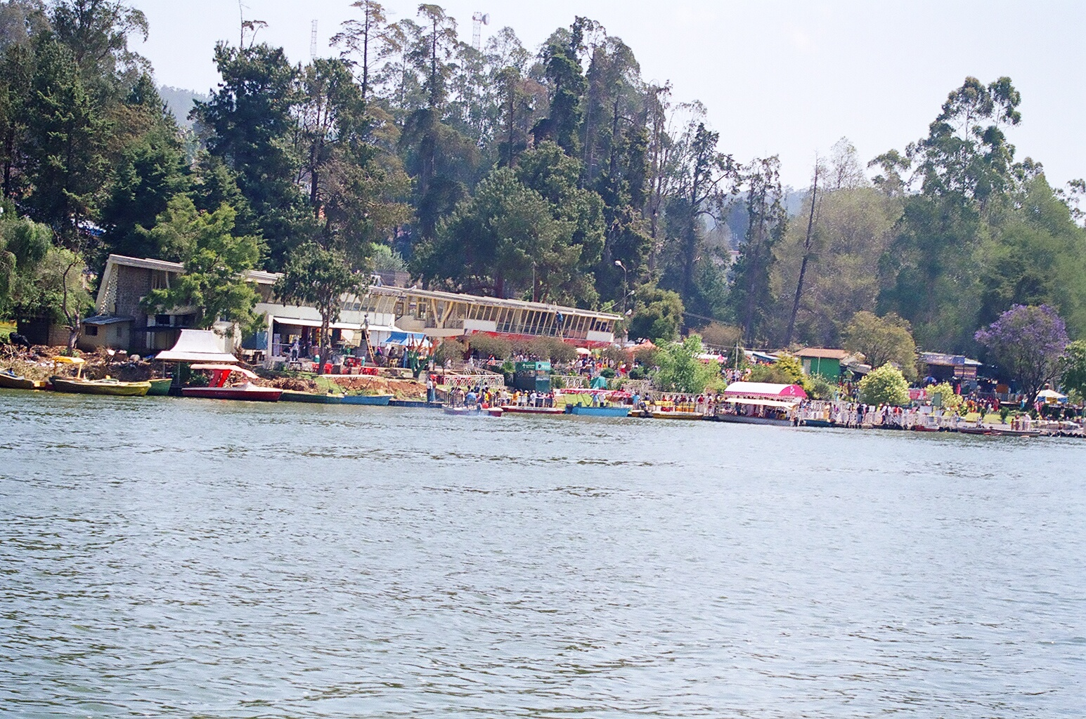 A view of the Ooty Lake Boat House.